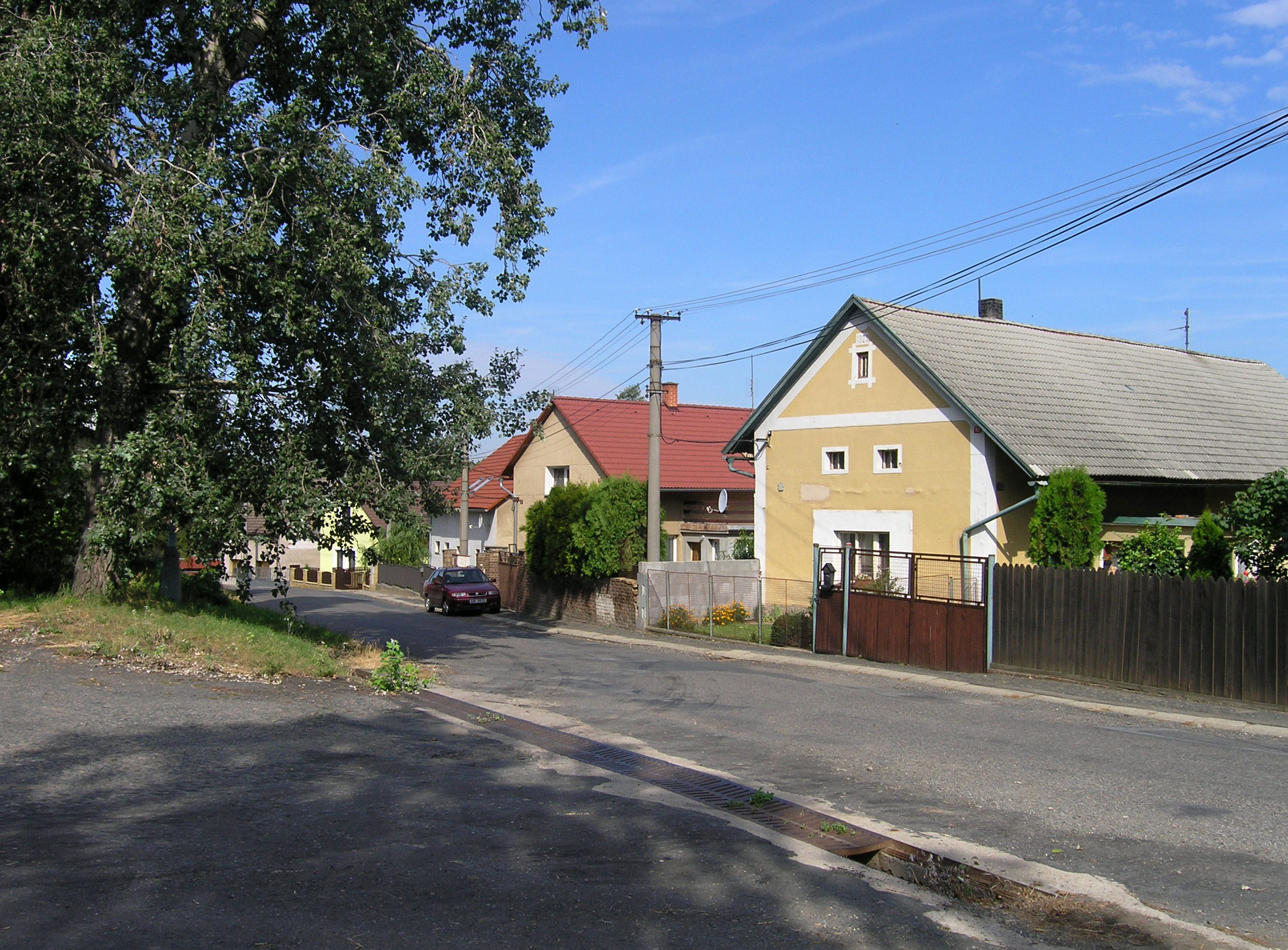 Middle part of Dolní Chvatliny village, Czech Republic